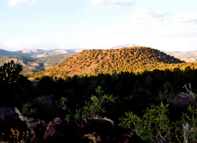 Bald Knoll is the youngest of a group of cinder cones on the SW part of the Paunsaugunt Plateau in southern Utah. It is seen here from the SW with the escarpment forming the Pink Cliffs of the renowned Grand Staircase of Paleozoic sedimentary rocks in the background. The proximal part of a voluminous blocky lava flow that traveled to the south from a vent at the base of the youthful-looking cinder cone forms the shaded area in the foreground.